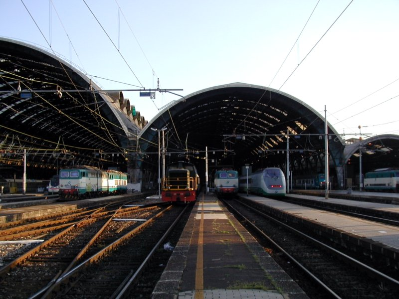 A view of Milano-Centrale station